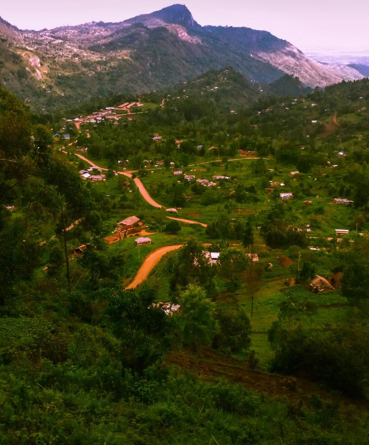 Best views In taita taveta county